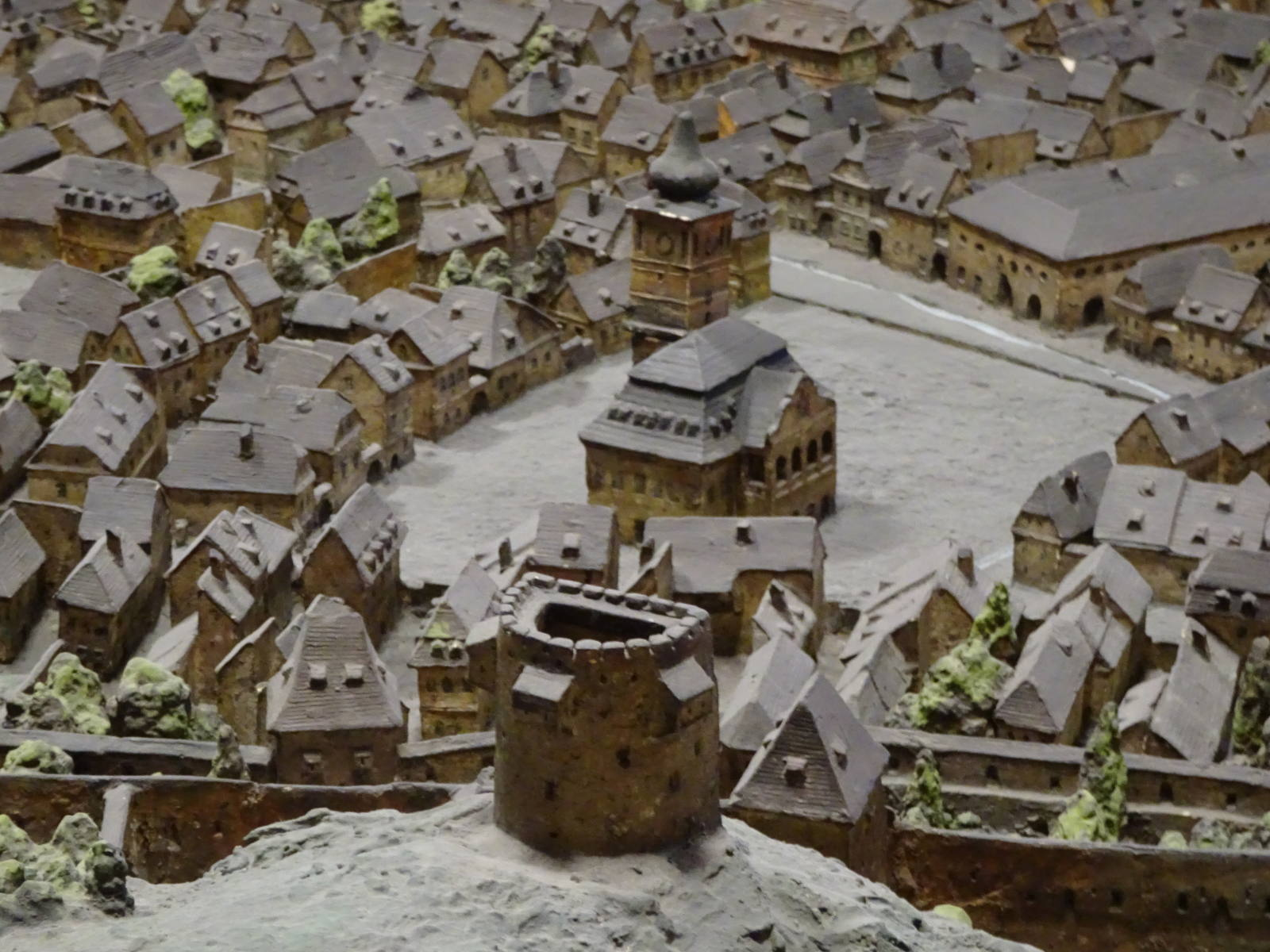 Model of 17th century Brașov, scale 1:200, created in 1896. Council Square, with White Tower in the foreground.